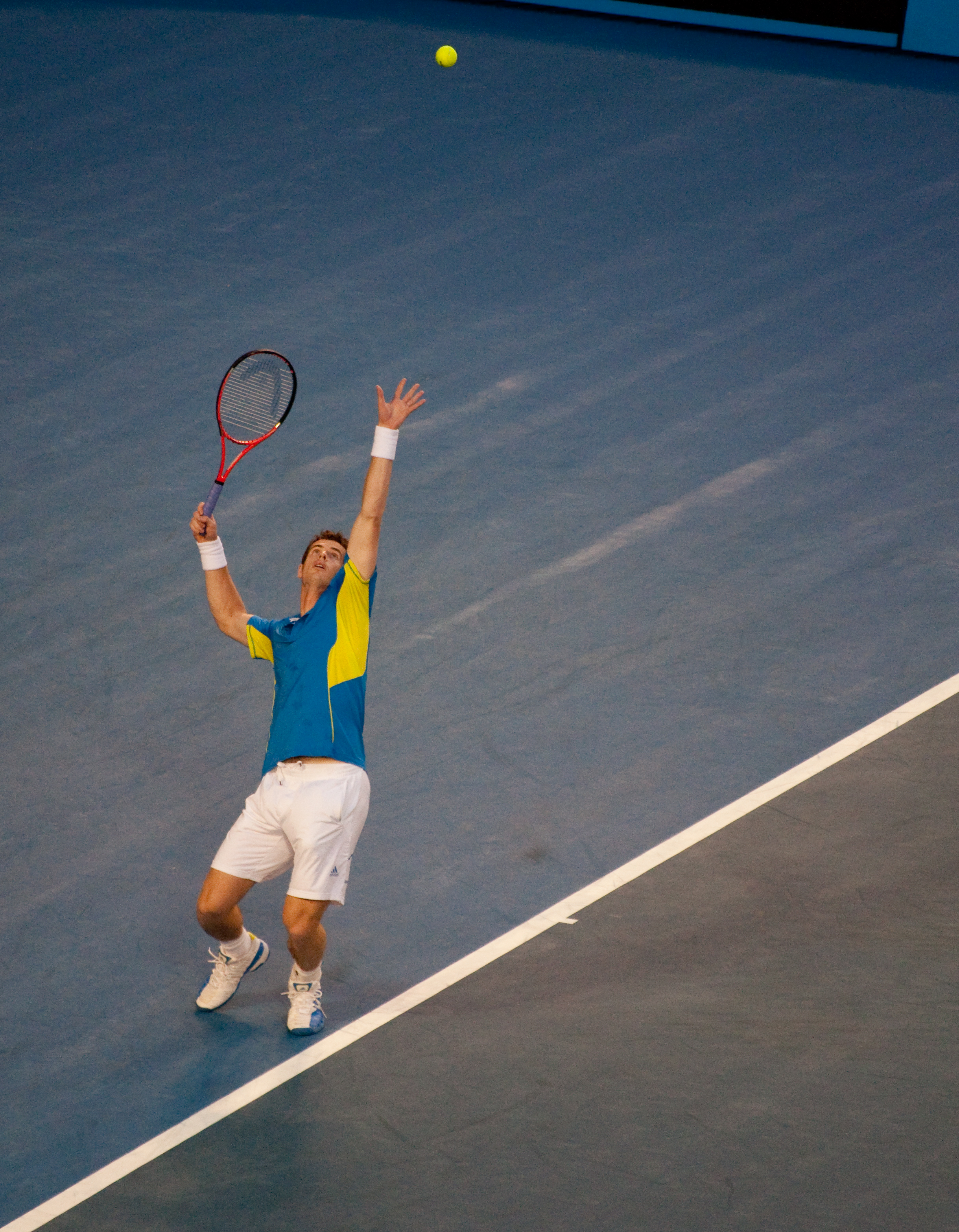 Australian Open 2010 Quarterfinals Nadal Vs Murray